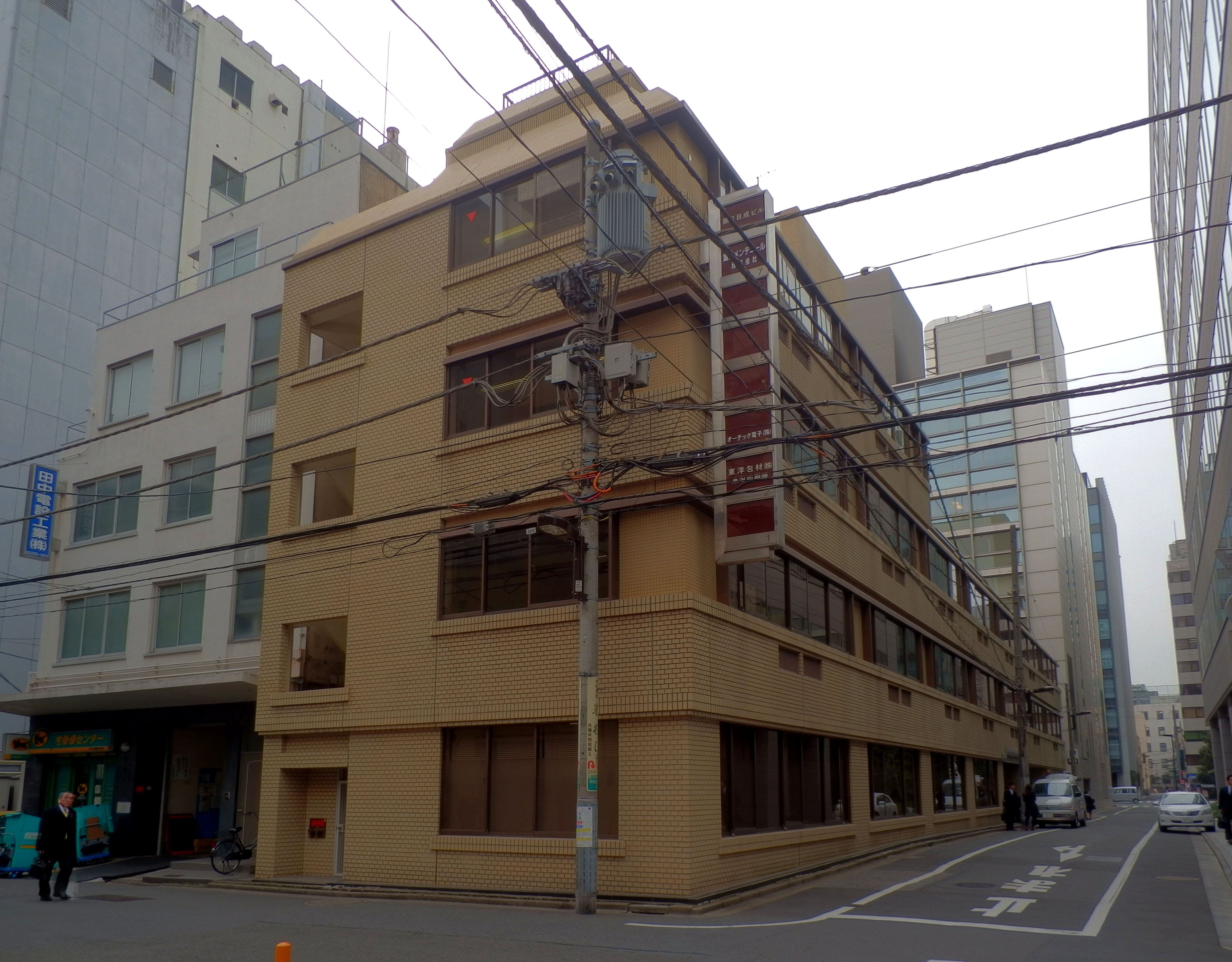 Dai-2 Nissei Building (Office building in Tokyo, Japan)